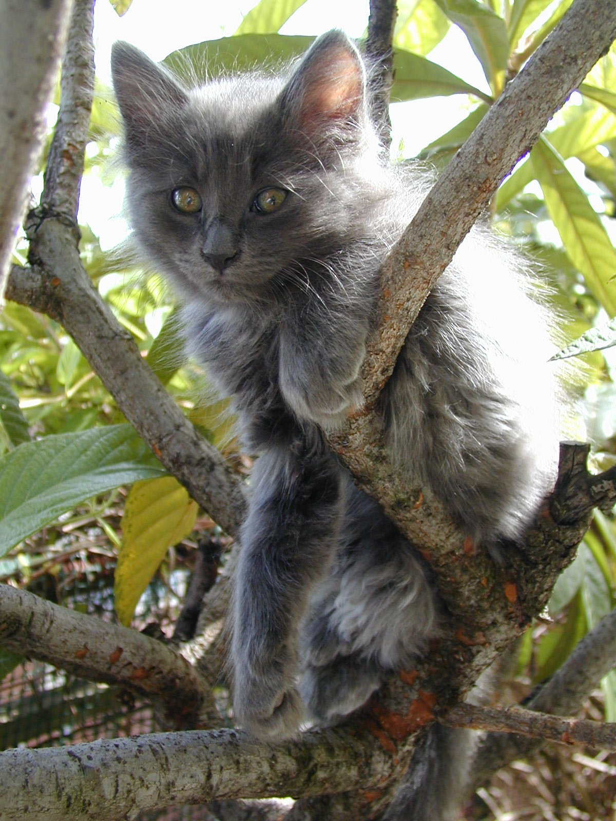 Cat named Petunia on a medlar tree. Born on March 7, 2004 in Orvieto